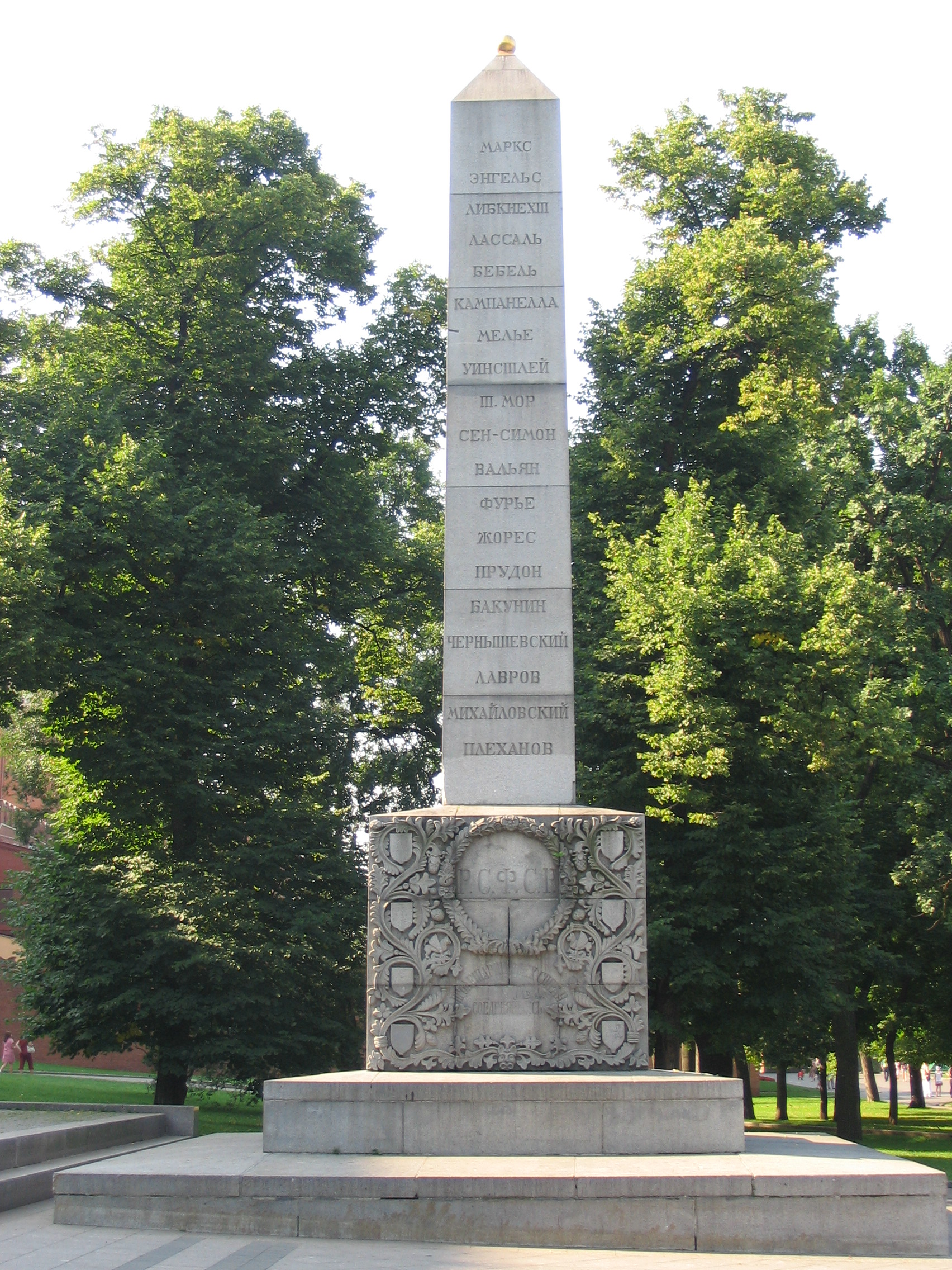 The "Obelisk-Monument" in the Alexander Garden, Moscow, with names of socialist and communist thinkers (redesigned 1918 from a prior Romanov Anniversary monument)